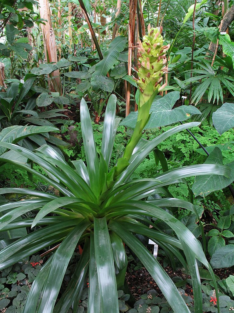 Guzmania roseiflora, in cultivation at the Botanical Garden of Heidelberg, Germany.